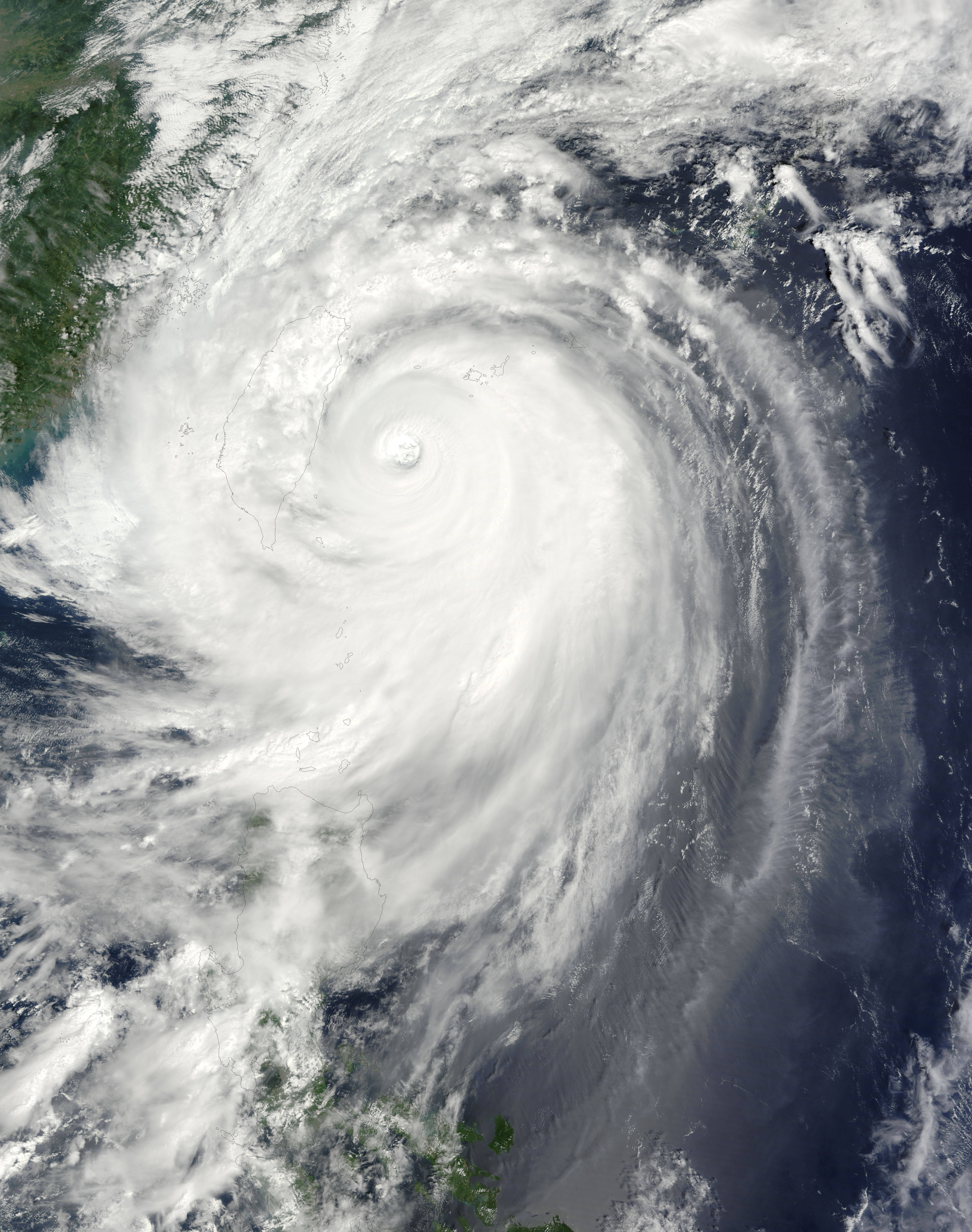 Satellite image of Typhoon Jangmi at 1020 UTC Sept. 28, 2008